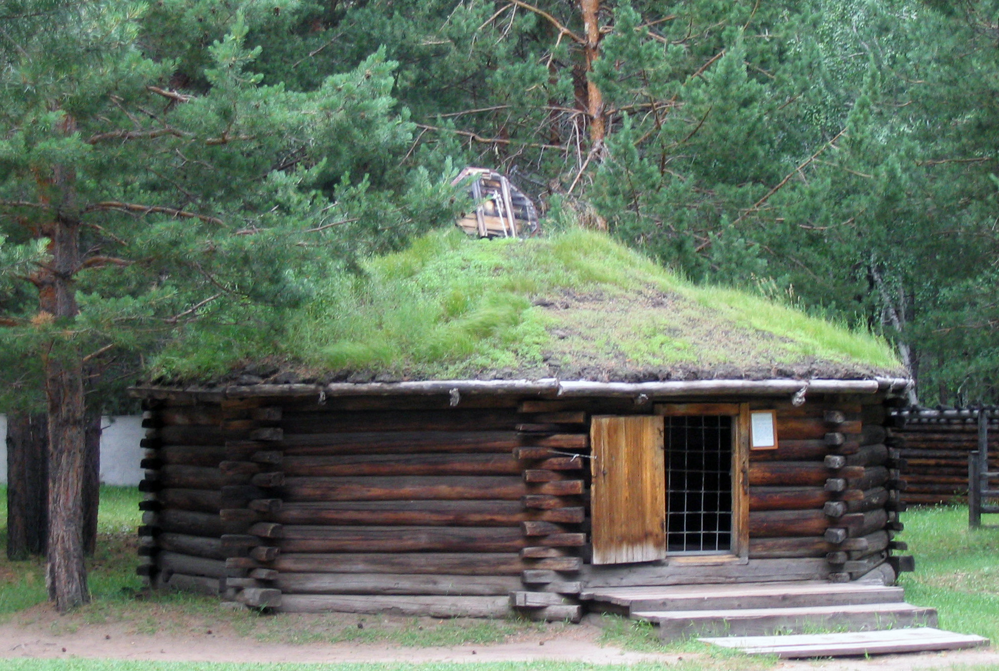 Image of a Buryat yurt as seen in the Ethnographic Museum in Ulan Ude, Russia. Taken by me 7/06, released into public domain.